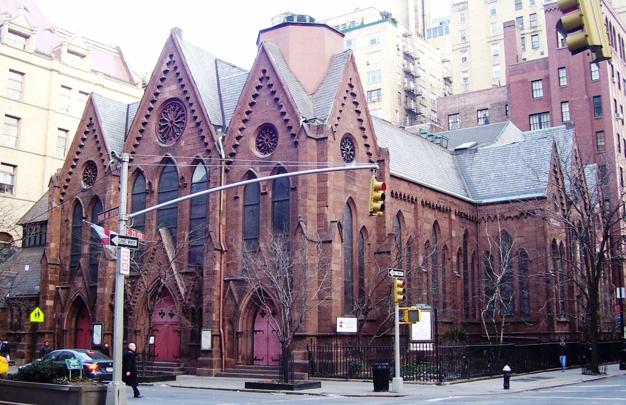 The parish of Calvary Church was founded in 1832, and the current church building`at 273 Park Avenue South on the corner of East 21st Street in Manhattan, New York City was constructed in 1848, designed by James Renwick, Jr. The church's two original wooden towers were removed in the early 20th century because of deterioration -- note the hexagonal stub where the south tower was located. (Sources: Calvary-St. George's Parish website, From Abyssinian to Zion (2004), AIA Guide to NYC (4th ed.))